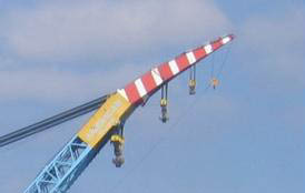 Saipem 7000 in April 2006,in the Åmøyford, Norway. The vessel is holding station using its dynamic positioning system. The yellow construction on deck is a through leg pile jacket to be installed offshore Canada. The jacket will form the foundation for a Gas Compression platform which is part of the ExxonMobile Sable Island Development.